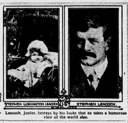 Newspaper photo of Leacock and his son in 1916.